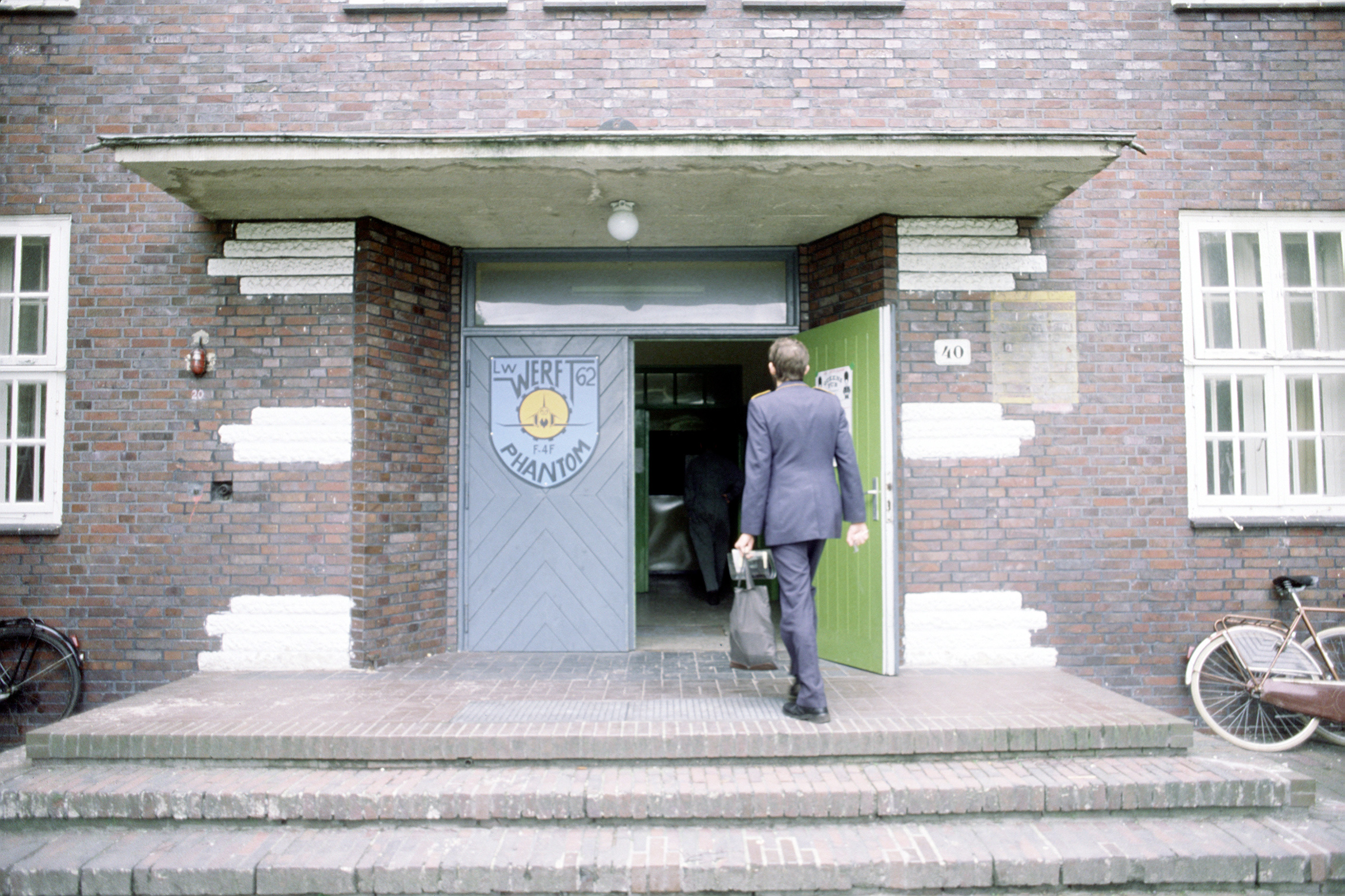 Scope and content: The original finding aid described this photograph as: Base: Jever German Air Force Base, Country: Deutschland / Germany (DEU), Scene Camera Operator: TSGT. Jose Lopez Jr., Release Status: Released to Public